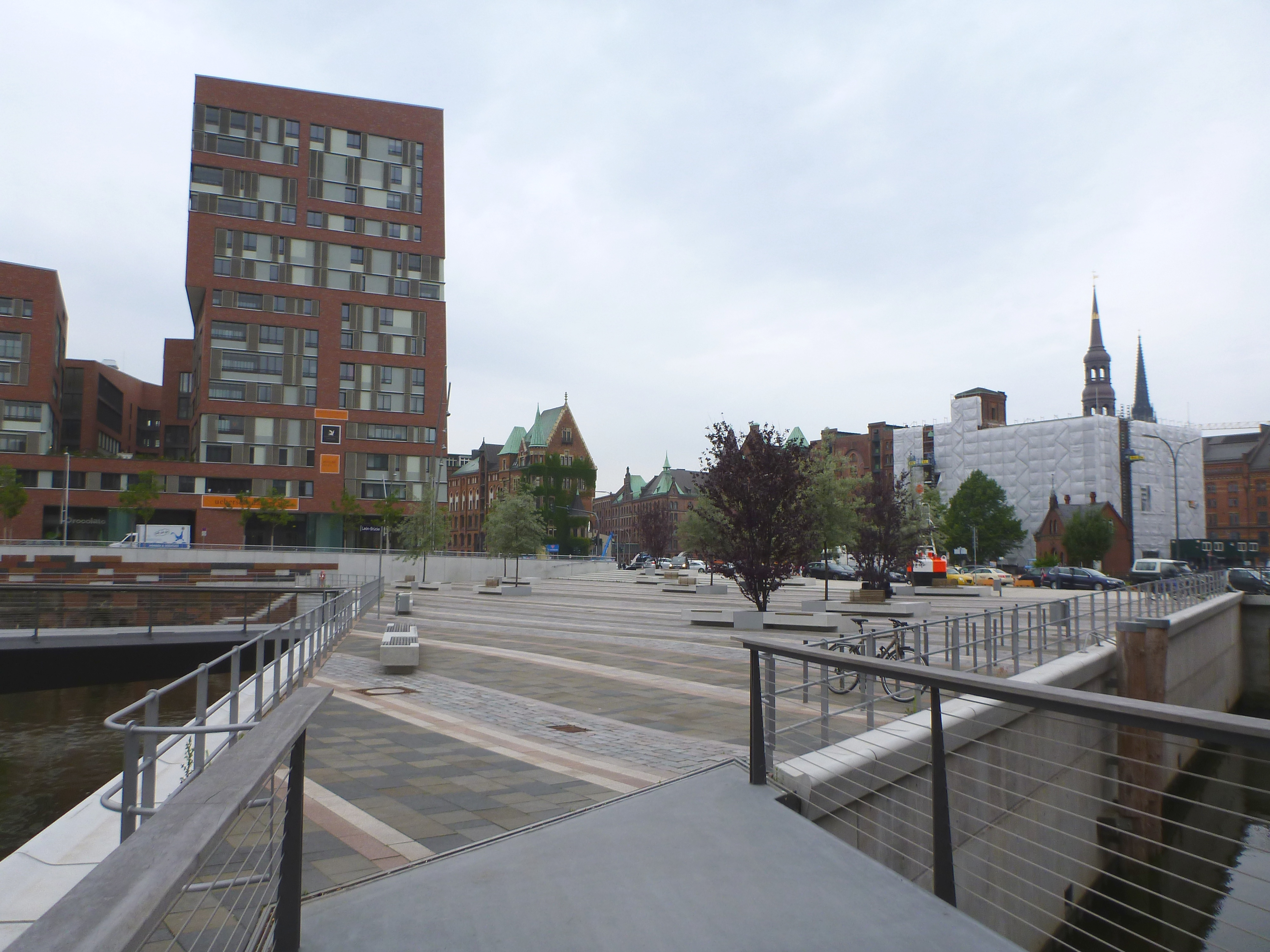 Dar-es-Salaam-Platz from Brooktorkai in the Hamburg Hafencity